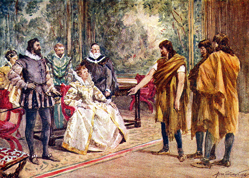 Shane O'Neill of Tyrone meets Queen Elizabeth of England